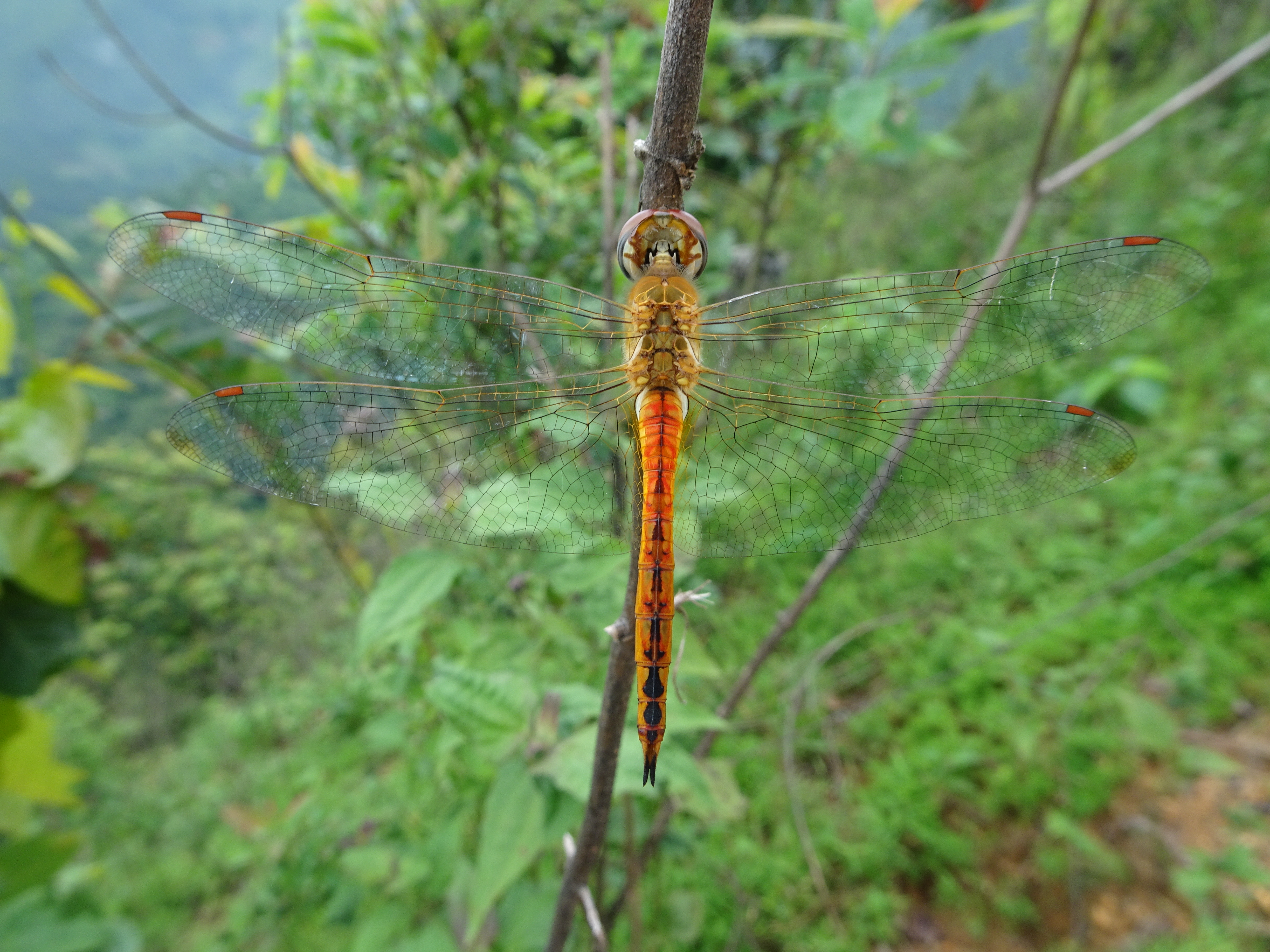 Pantala flavescens aka the Wandering Glider taken at Bhorlatar, Lamjung